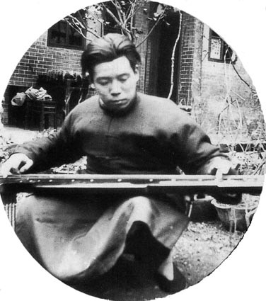 guqin player Yu Shaoze